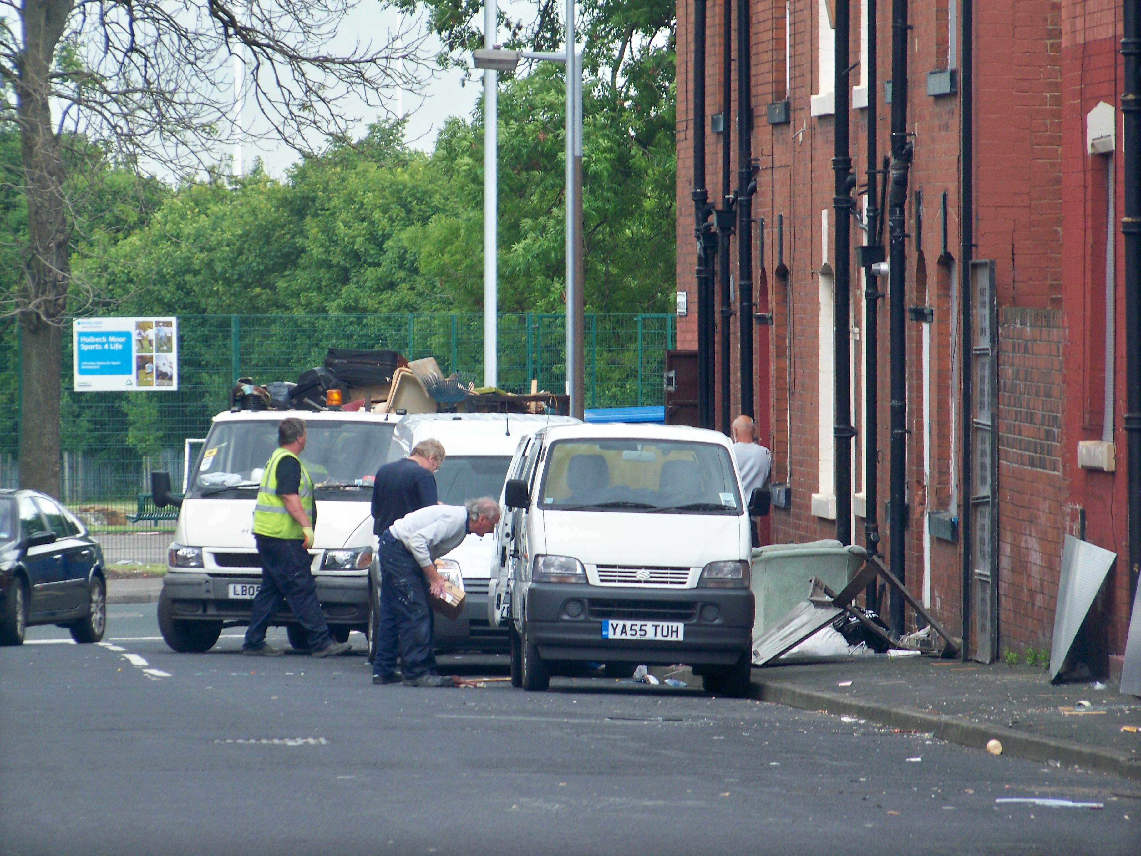 The clearing of the vacated back to back houses on Runswick Place, Holbeck, Leeds, West Yorkshire. The houses are due for demolition as part of the regeration of the area and many have been vacated for several years. Taken Midday on Thursday 18th June 2009.